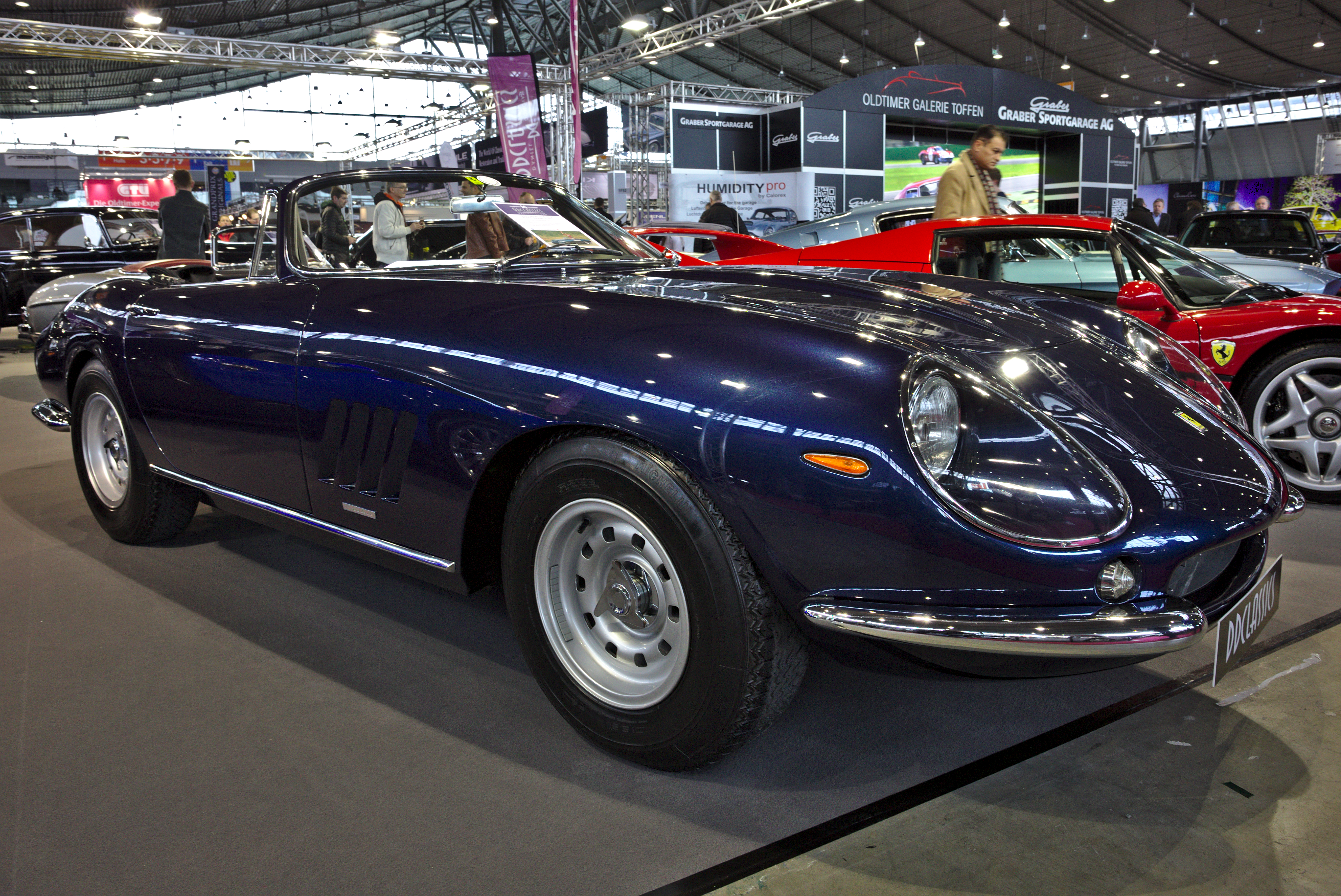 Ferrari 275 GTB s/n 07211 (converted ca 1990 to Nart Spyder) at Retro Classics 2018